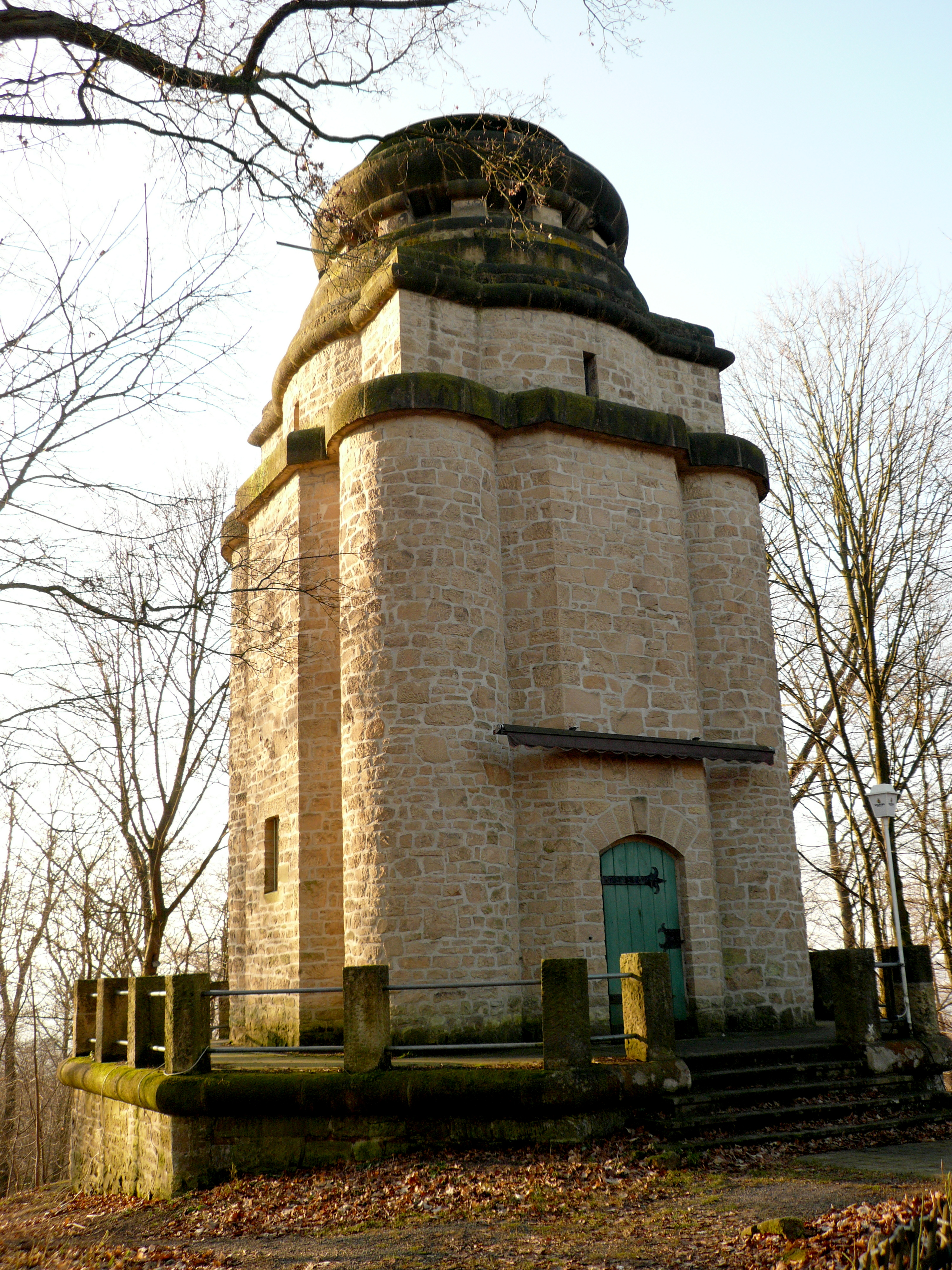 Bismarck tower at Hameln